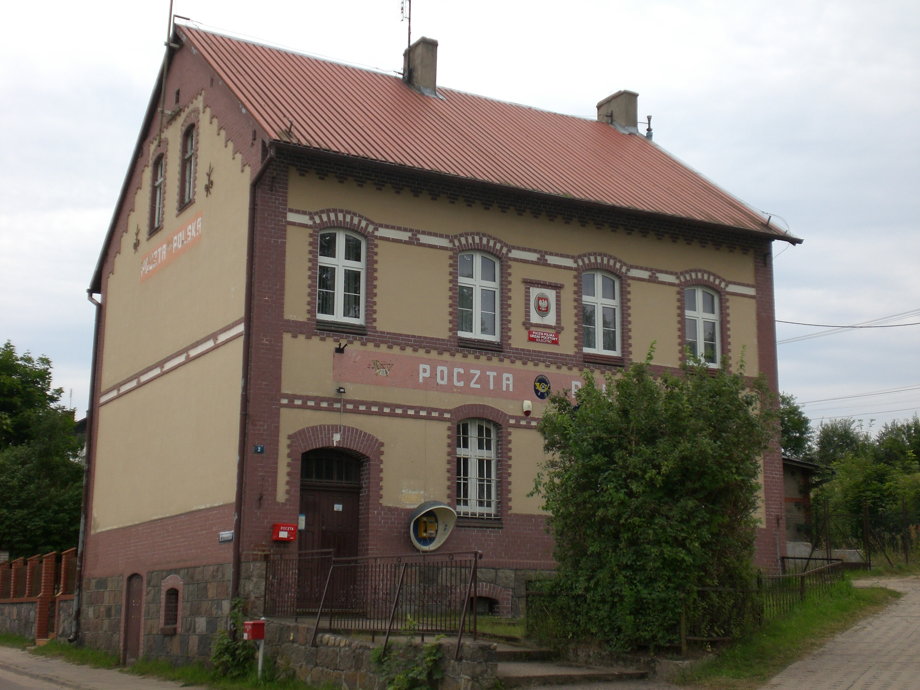 Sulęczyno – post office.